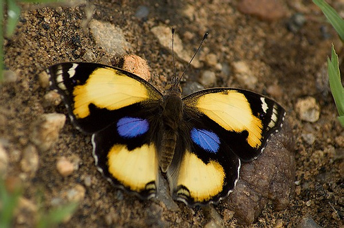 Junonia hierta by Dhaval Momaya at Karumathampatty, Coimbatore, Tamilnadu.